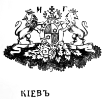 Porcelain marks from the Mezhyhirya porcelain factory in Ukraine, 19 Century.